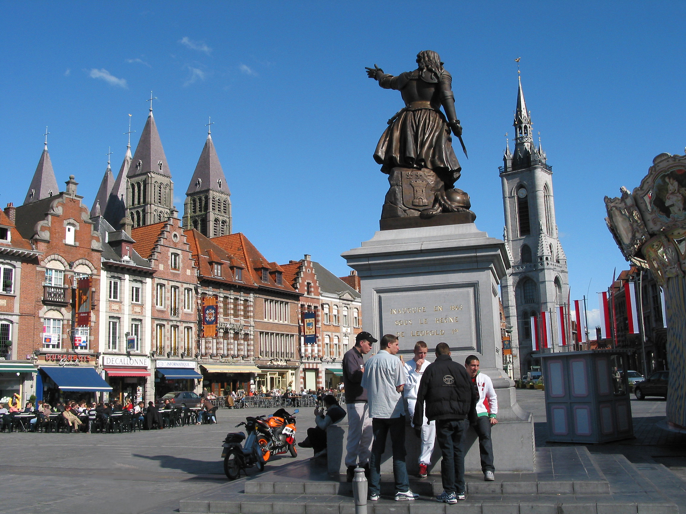 Tournai (Belgium), the "Grand'Place", the belfry (XIIth century) and the Our Lady Cathedral (XIIth century).